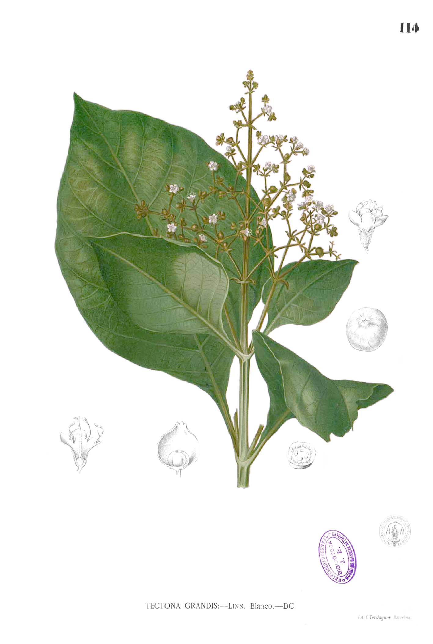 Plate from book